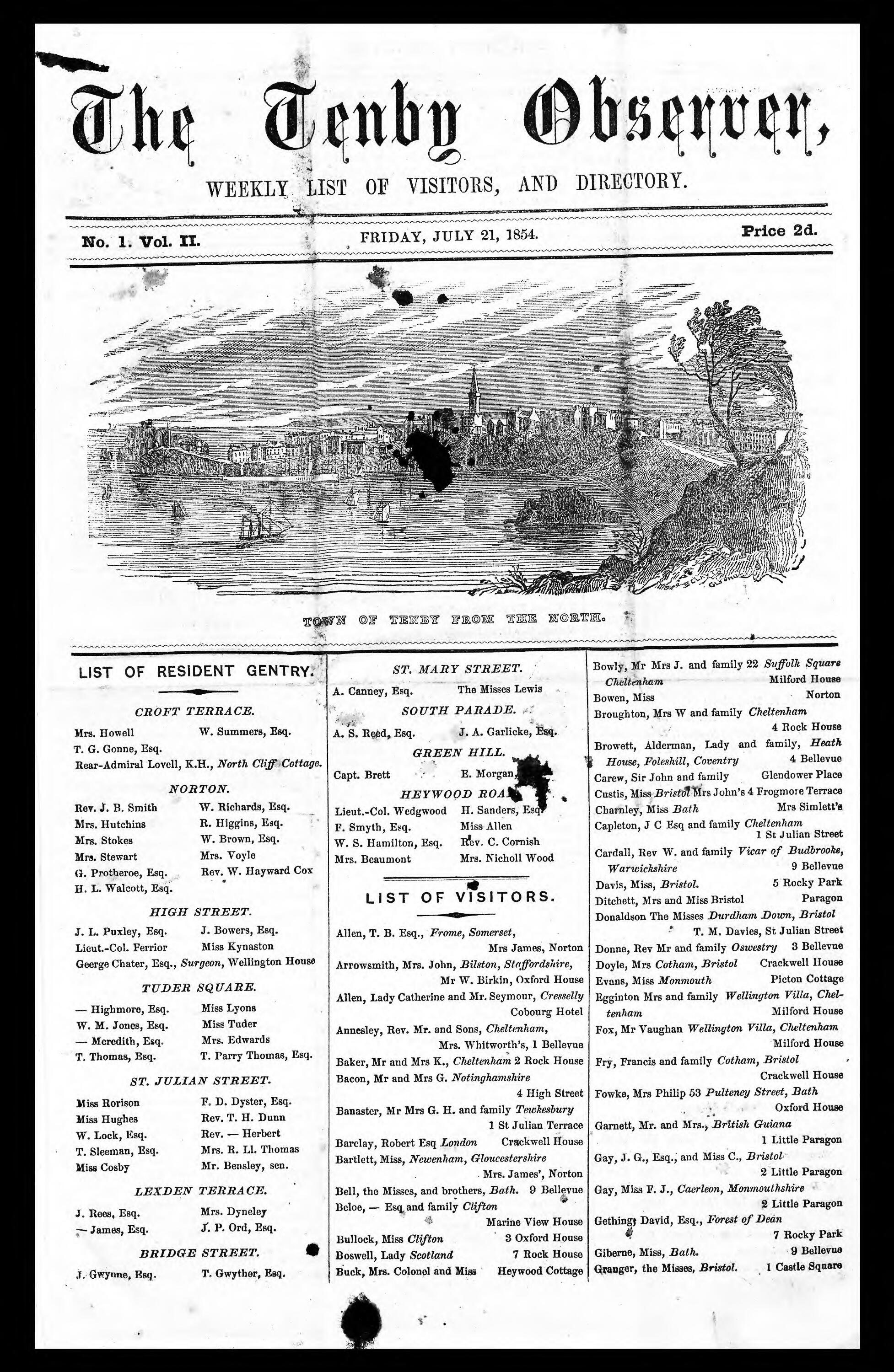 Front page of the earliest surviving copy of the Welsh newspaper The Tenby Observer